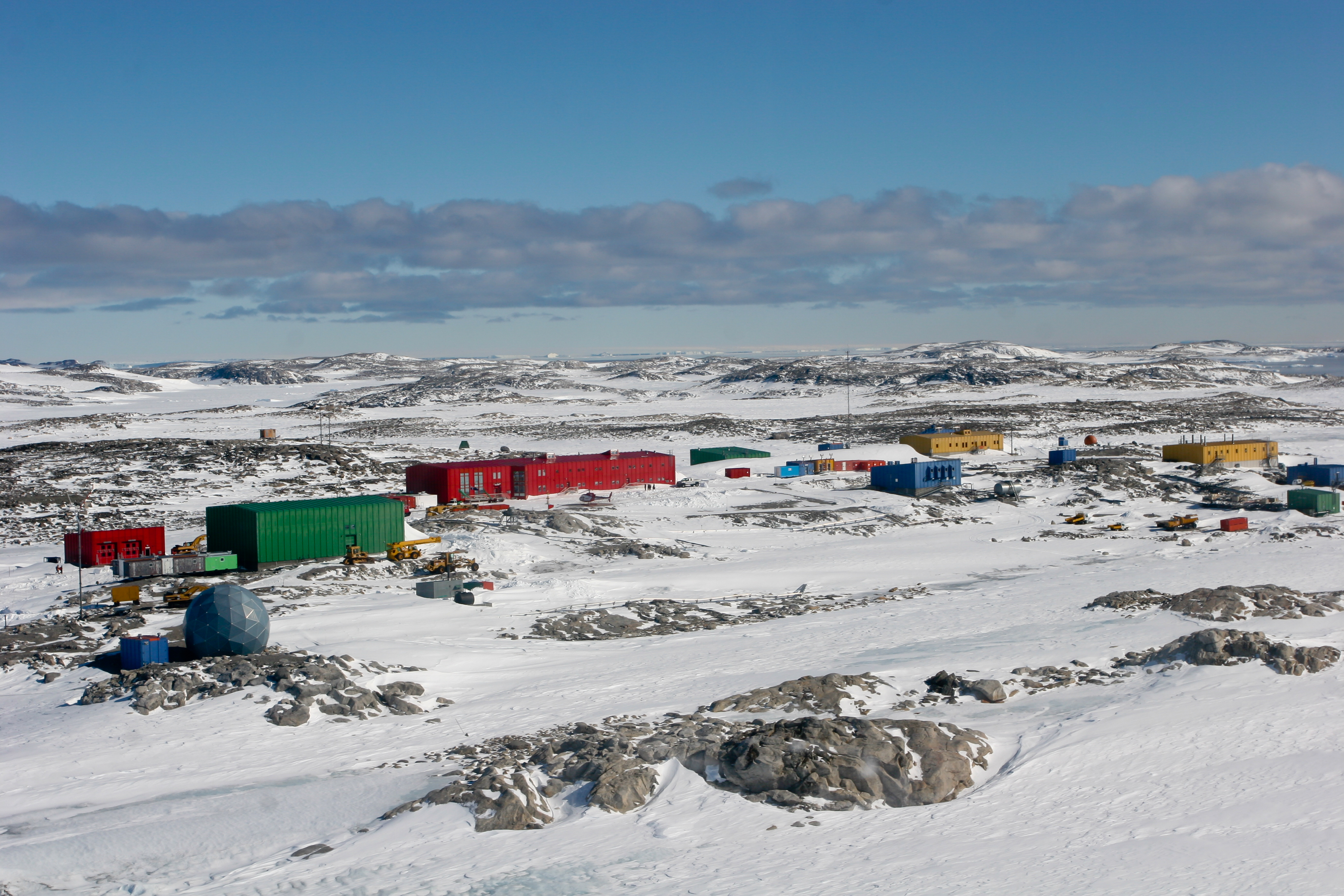 Casey Station, Australian Antarctic Programme, November 2005